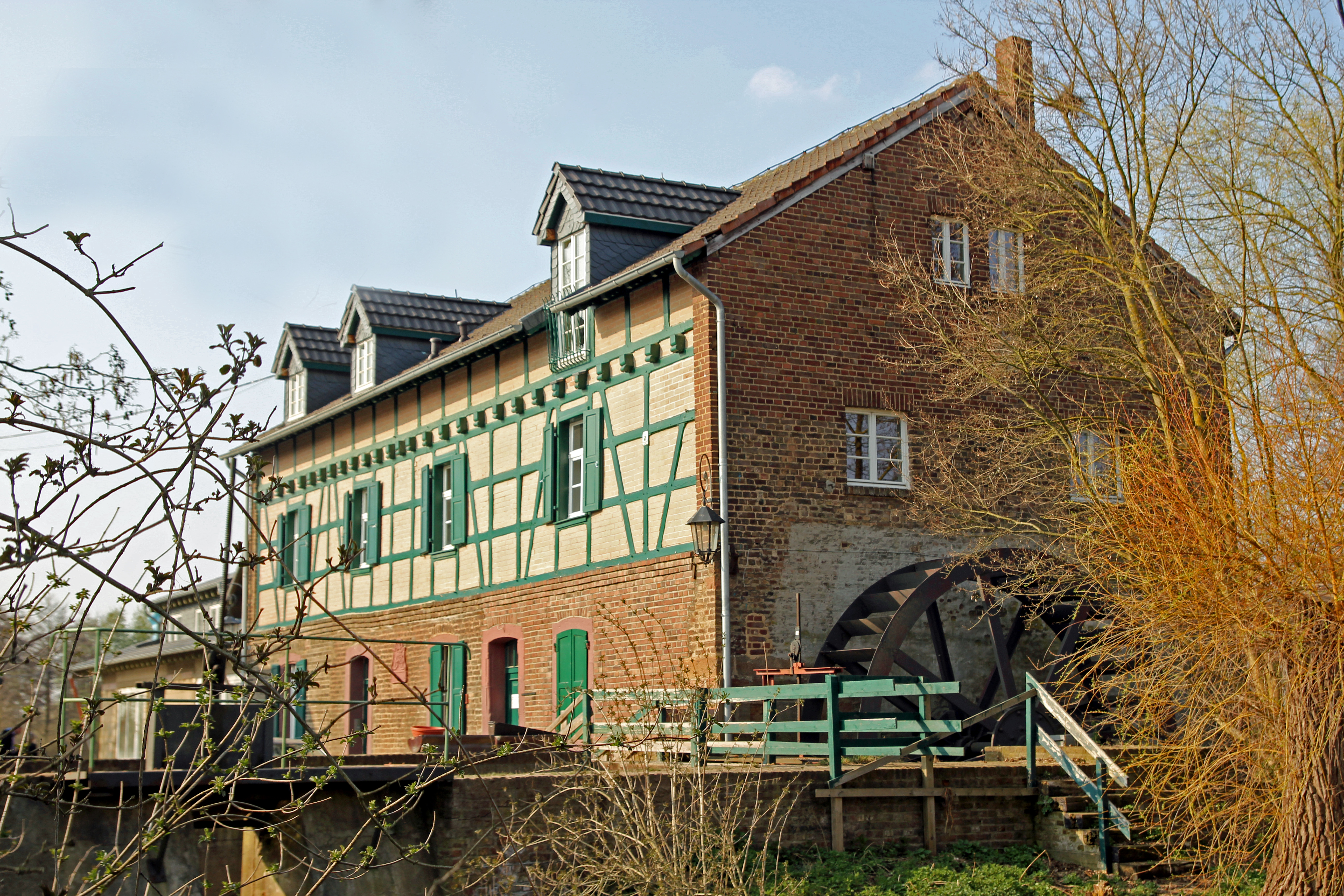 Water Mill in Gymnich